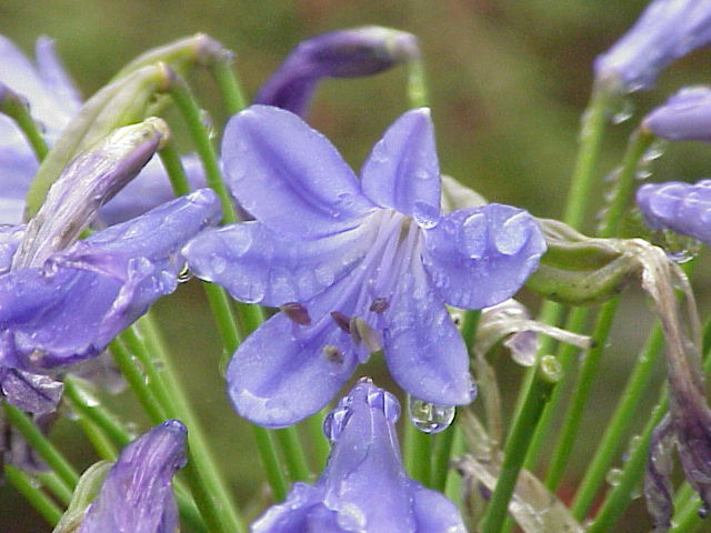 Species: Agapanthus africanus Family: Amaryllidaceae Image No. 2